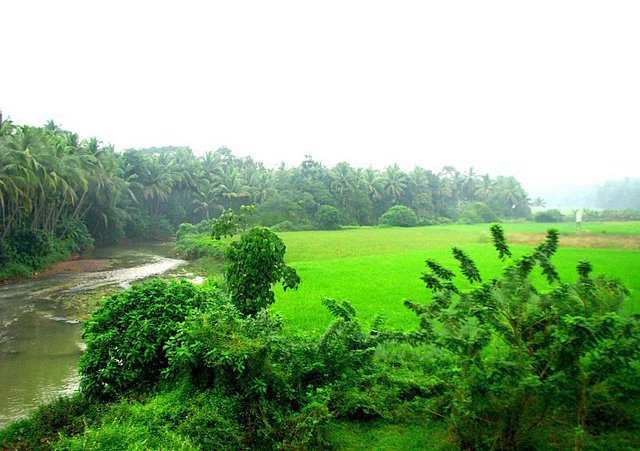 Taken by JAFAR IBRAHIM